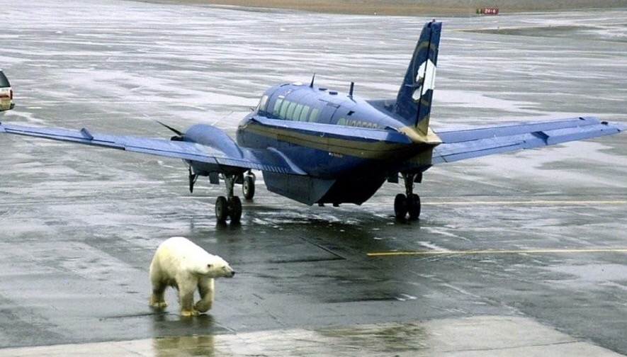 Polar bear walking on tarmac at Wiley Post-Will Rogers Memorial Airport in Barrow, Alaska